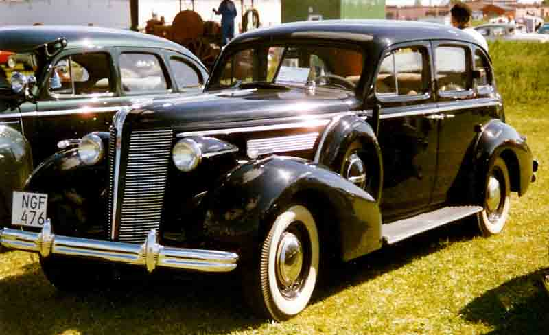 1937 Buick Special Series 40 Model 41 4-Door Trunkback Sedan